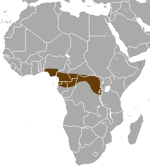 Long-tailed Musk Shrew (Crocidura dolichura) range